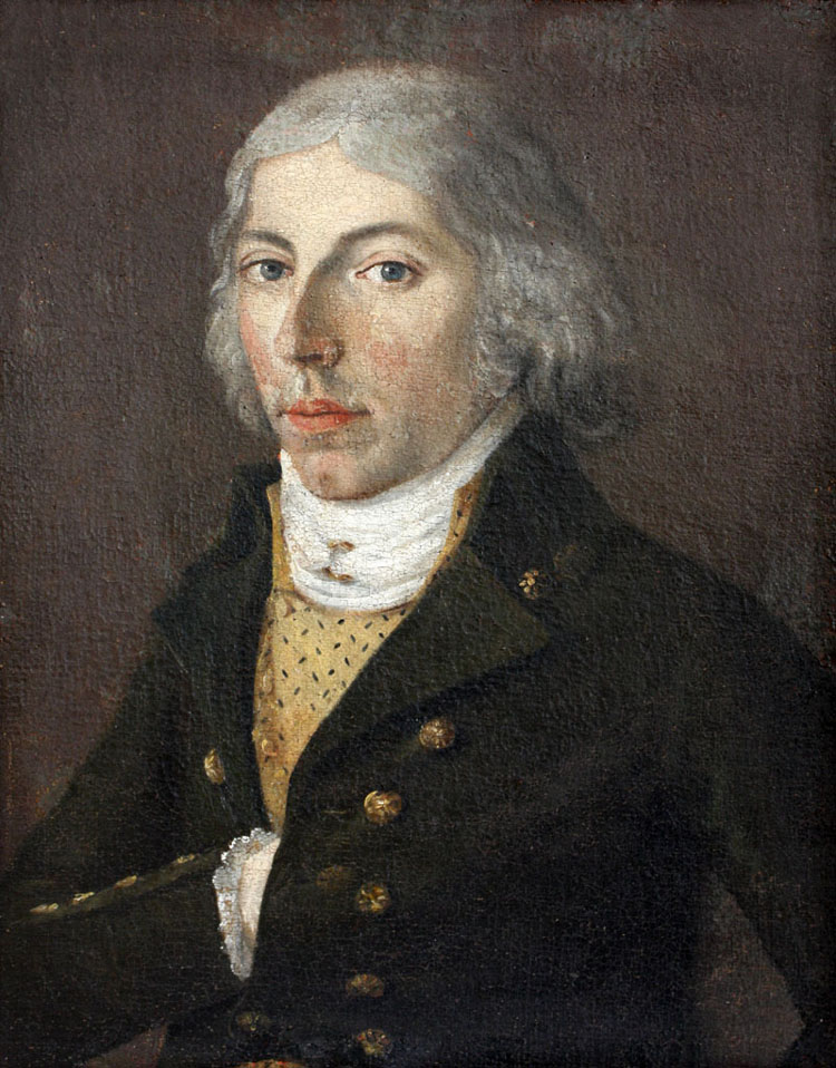 Johann Christof Haas (1753-1829), Austrian Painter; self-portrait